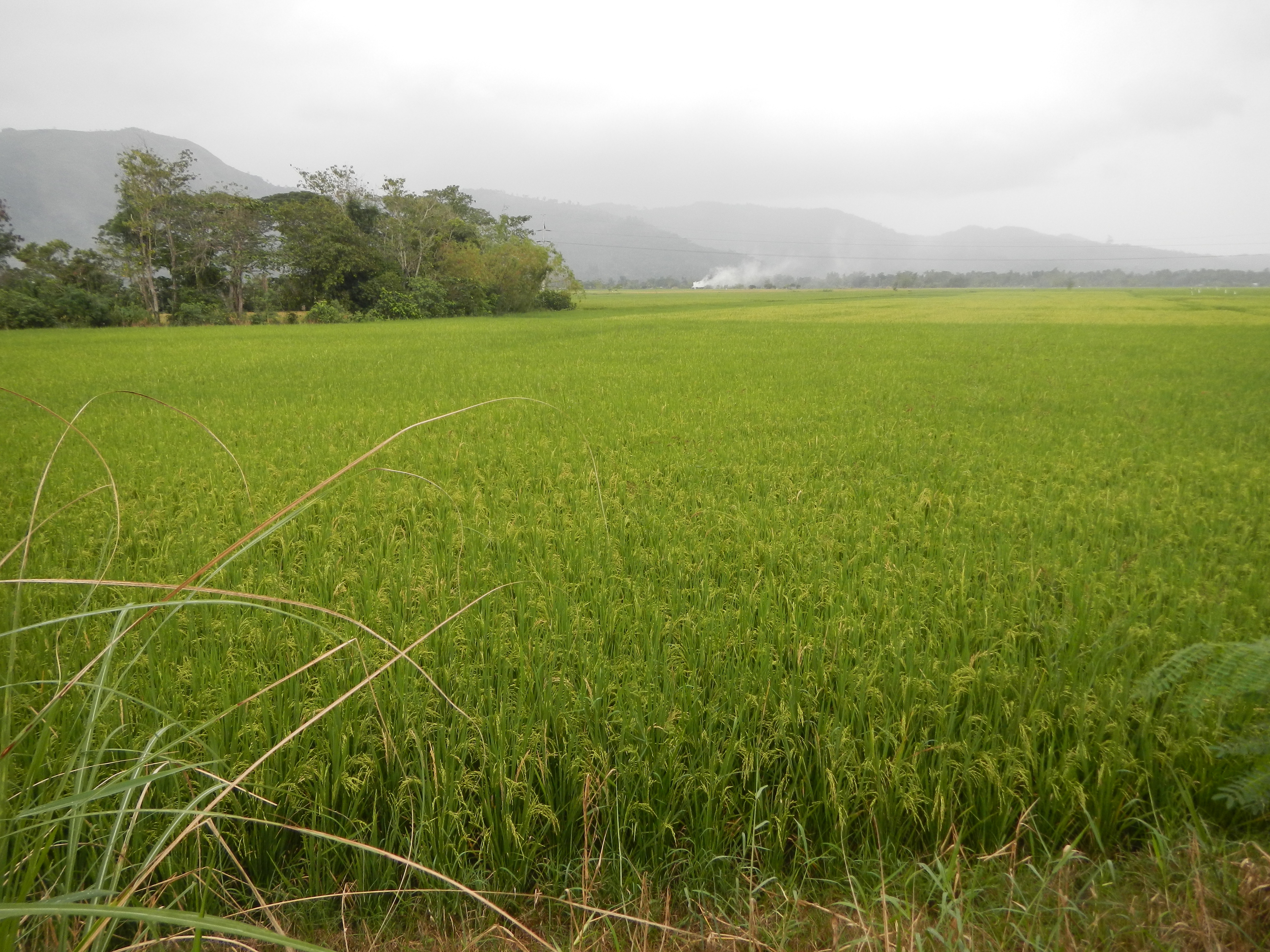 Upload Wizard Panorama photos of -- (general description of landmarks, town, Church, going to dark, sunset conditions) - the Pan-Philippine Highway or Daang Maharlika Highway passing along the scenery and Town buildings, establishments - of a) Aritao, Nueva Vizcaya, [1] bus stop over of Dalin Liner, and Victory Liner at CCQ Restaurant towards b) Bambang, Nueva Vizcaya to c) the Boundary, Welcome Arch of Villaverde, Nueva Vizcaya[2] separating it from neighbor Solano Nueva, Vizcaya.